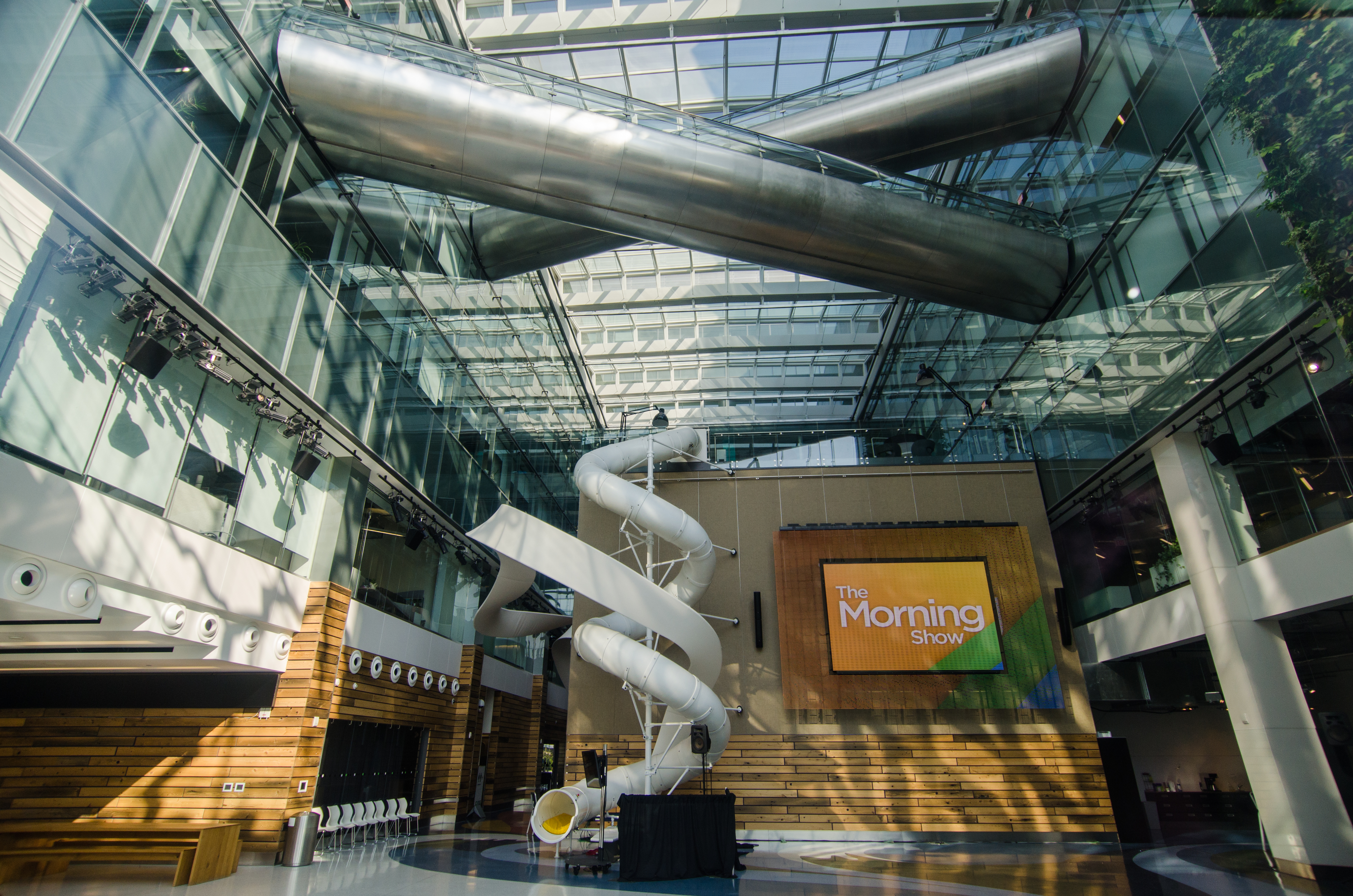 Seen in Orphan Black, The Expanse, Salvation, & All For One.